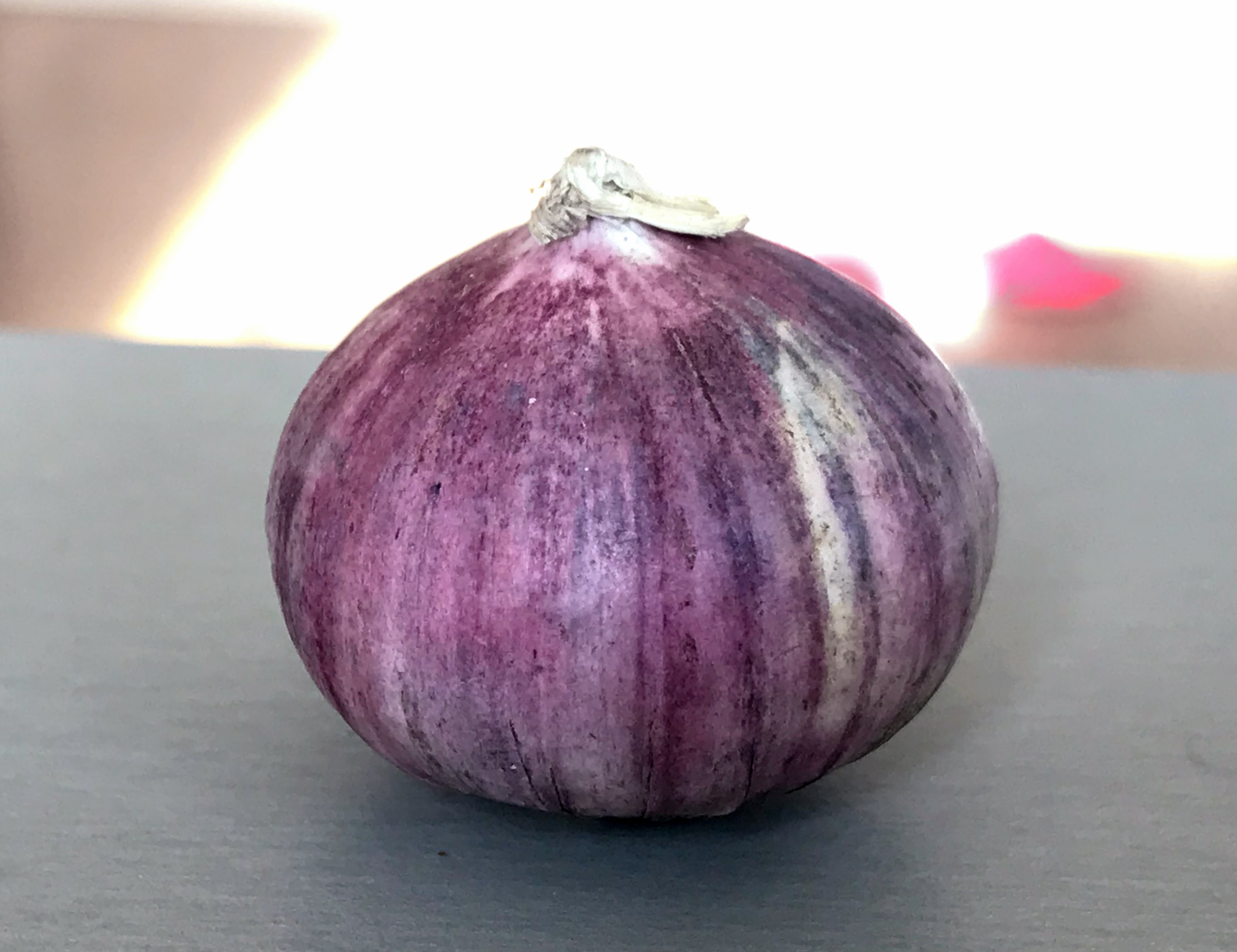 single bulb garlic